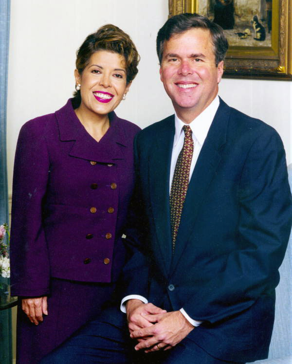 Governor Jeb Bush and his wife, Columba - Tallahassee, Florida